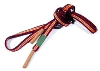 Flat type silk obijime